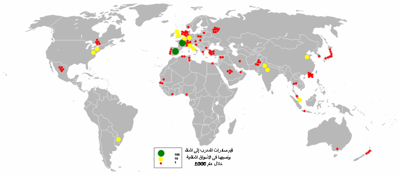 Exports of Morocco 2006